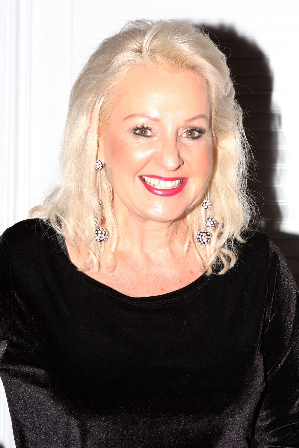 Stephanie Rice Fundraiser for Don Bosco Foundation; CBD Hotel - 18th June 2013... Stephanie Rise, former Olympic swimming champion, hosted a fundraiser for Youth Off The Streets tonight. During the shooting on Celebrity Apprentice (Australia) Rice pledged to host a fundraiser on behalf of the charity, Don Mosco Youth Foundation. The evening included a 'pool comp", a selection of money can't buy items up for auction, and a living screening of Celebrity Apprentice. Auction items included: - Stephanie Rice Swim Clinic with you and 5 friends - Jeff Fenech Australian Word Boxing Champions - Mike Tyson personally signed collage - Tiger Woods photo collage signed - Signed Wallabies jersey - Guy Sebastian signed guitar - Mambo Surfboard by Reg Mombassa - Kobe Bryant signed basketball shoe - Michael Clarke signed cricket bat - Tim Cahill signed soccer ball or jersey - Sam Burgess and team signed Rabbitohs jersey - Kerastase hair care beauty pack - Crystal Head Vodka magnum GUESTS: STEPHANIE RICE, JEFF FENECH, PRINNIE STEVENS, PRUE MACSWEEN, JOHN STEFFENSEN, KYM JOHNSON, JESINTA CAMPBELL, SAM BURGESS, DREW MITCHELL, ADAM ASHELY-COOPER, DAN KOWALSKI, BEN HAZLEWOOD. Websites Celebrity Apprentice Australia Stephanie Rice official website Eva Rinaldi Photography